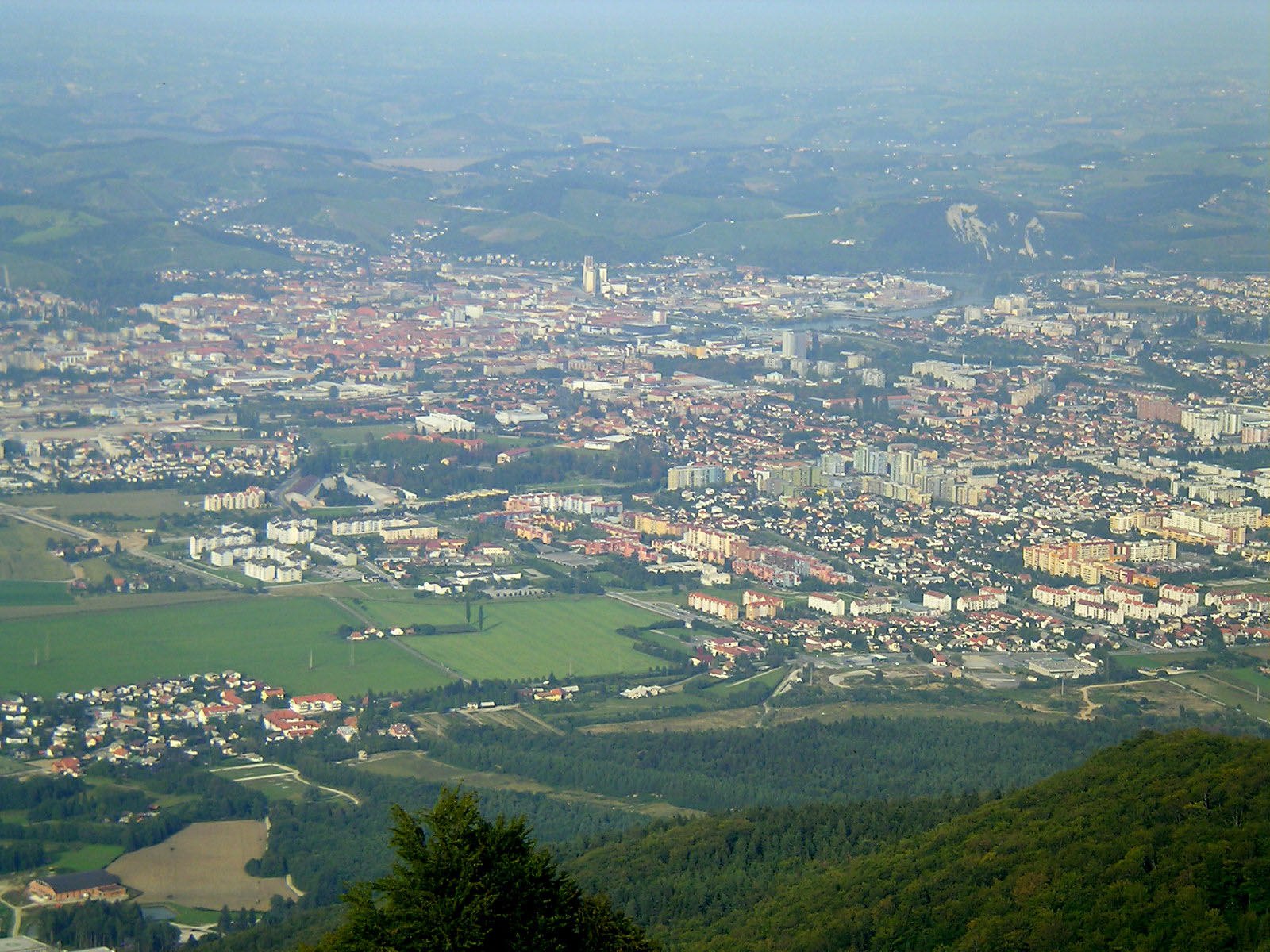 Maribor from Pohorje mountain.